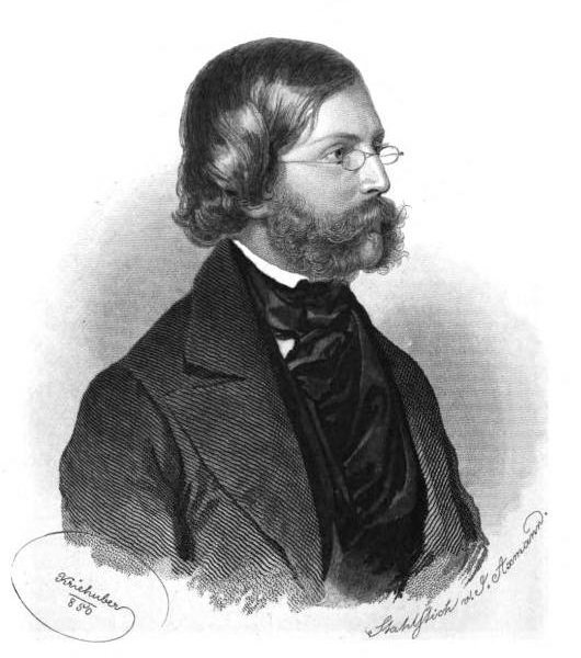 Salomon Hermann Mosenthal, steel engraving by Josef Axmann after a lithographic work by Joseph Kriehuber